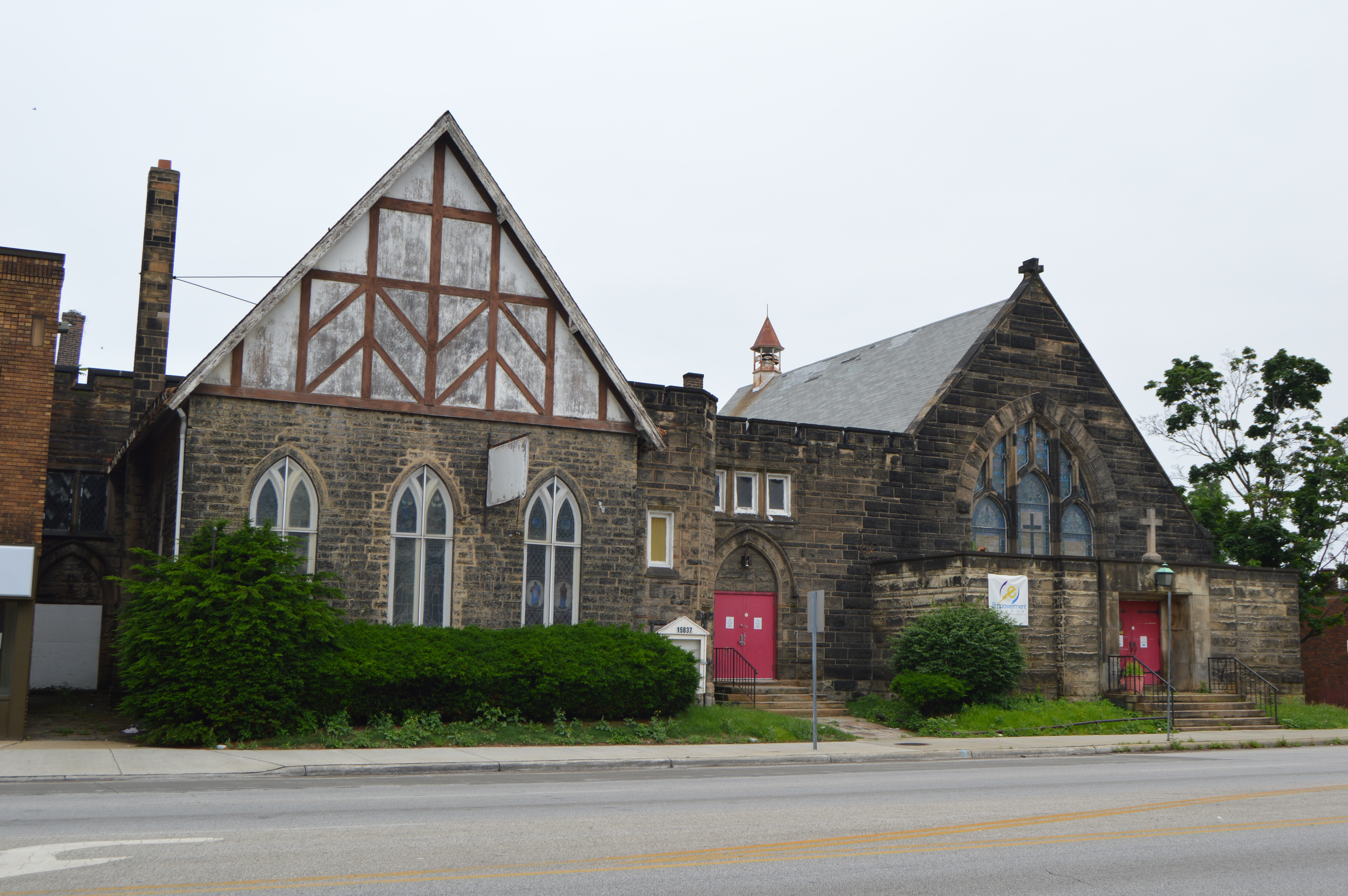 Front of the former St. Paul's Episcopal Church of East Cleveland (now the independent Empowerment Church), located at 15837 Euclid Avenue (U.S. Routes 6/20) in East Cleveland, Ohio, United States. Built in 1846, it is listed on the National Register of Historic Places.